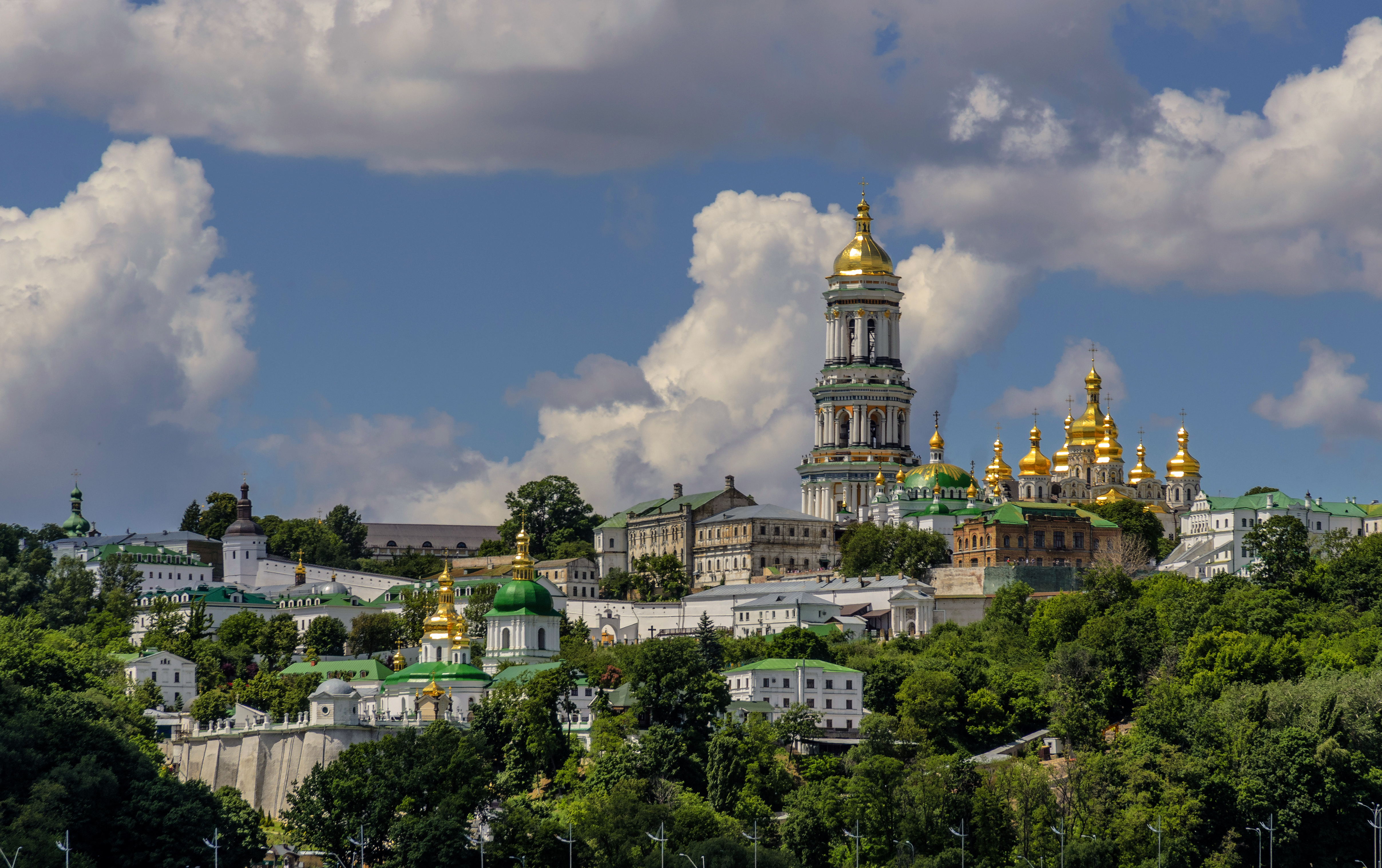 Kiev-Pechersk Lavra Complex (National Reserve of Kyiv-Pechersk Lavra), Kiev, Lavra Str.